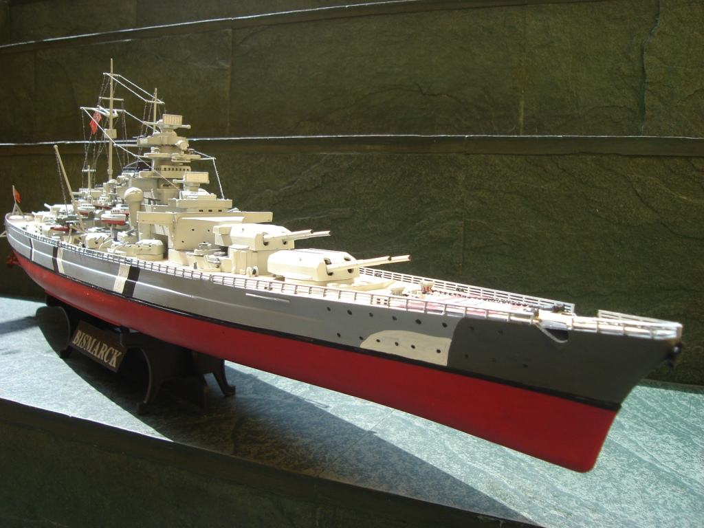 Bismarck 1:350 MHM